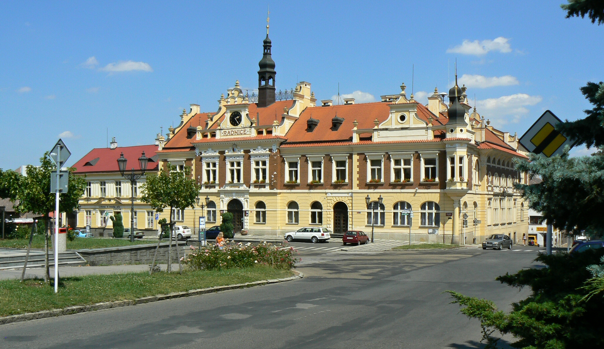 Town hall in Hořovice, Beroun District